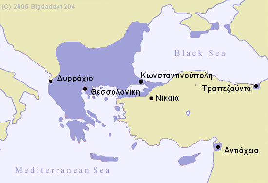 Byzantine empire at 1081